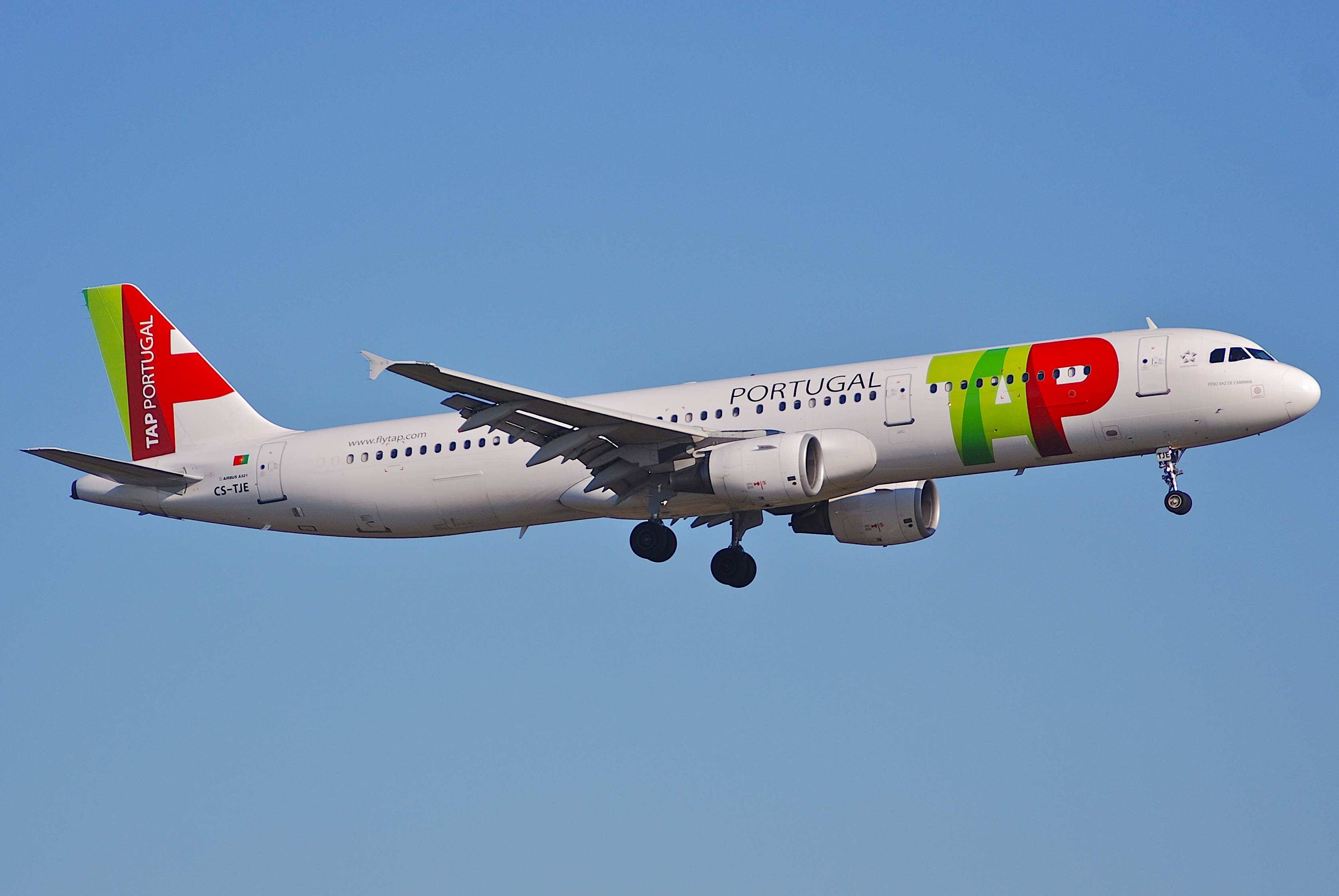 This A321, named 'Pero Vaz de Caminha', took its first flight on August 18, 2000 and was delivered to TAP on August 30, 2000...(c/n 1307)